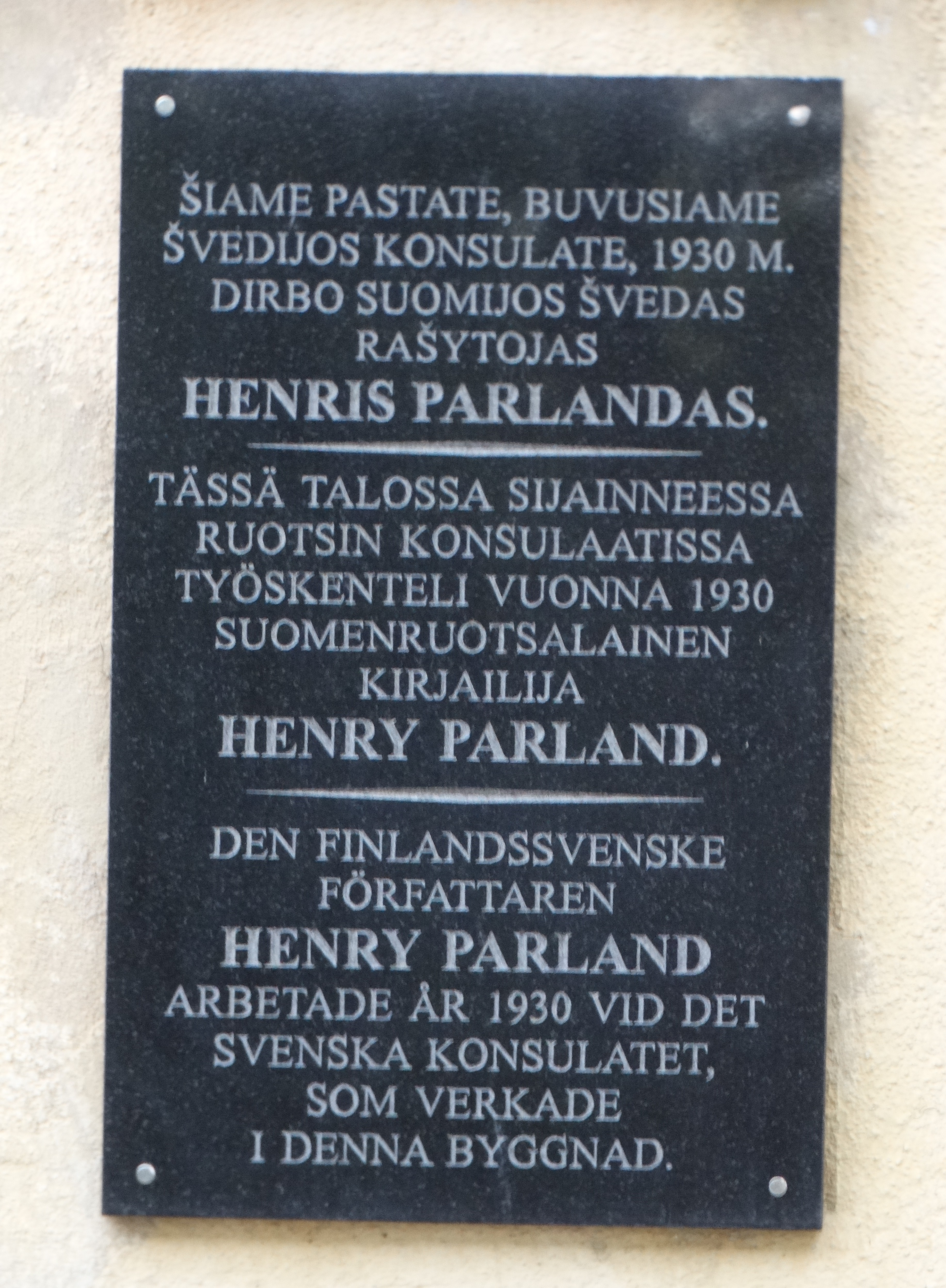 Memorial plaque to Henry Parland, Putvinskio 64, Kaunas, Lithuania